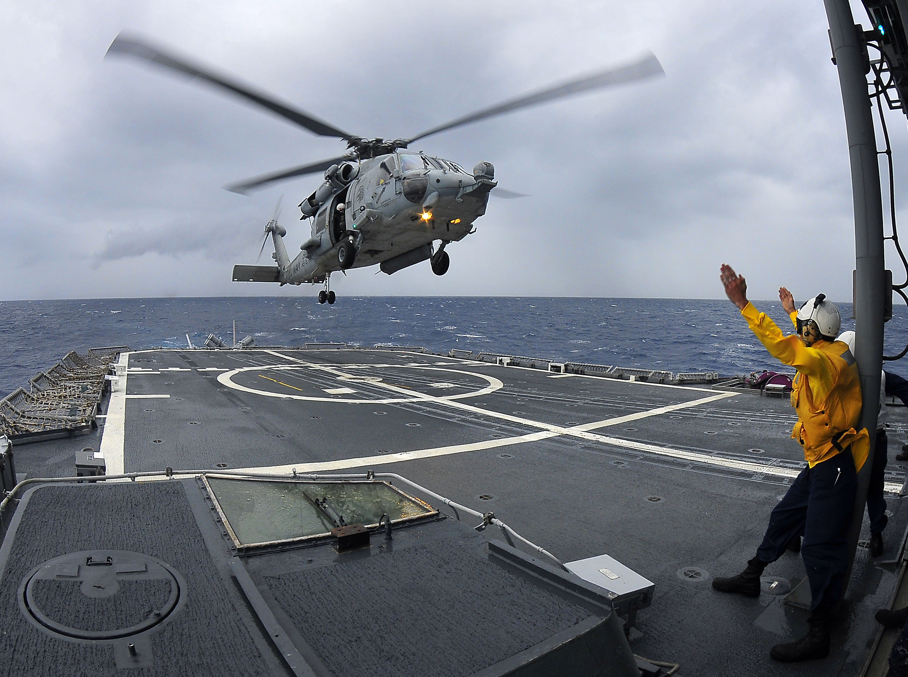 ATLANTIC OCEAN (March 4, 2010) An SH-60F Sea Hawk helicopter assigned to the Red Lions of Helicopter Anti-submarine Squadron (HS-15) lands aboard the guided-missile cruiser USS Bunker Hill (CG 52). Bunker Hill and the aircraft carrier USS Carl Vinson (CVN 70) are participating in Southern Seas 2010, a U.S. Southern Command-directed operation that provides U.S. and international forces the opportunity to operate in a multi-national environment. (U.S. Navy photo by Mass Communication Specialist 2nd Class Daniel Barker/Released)